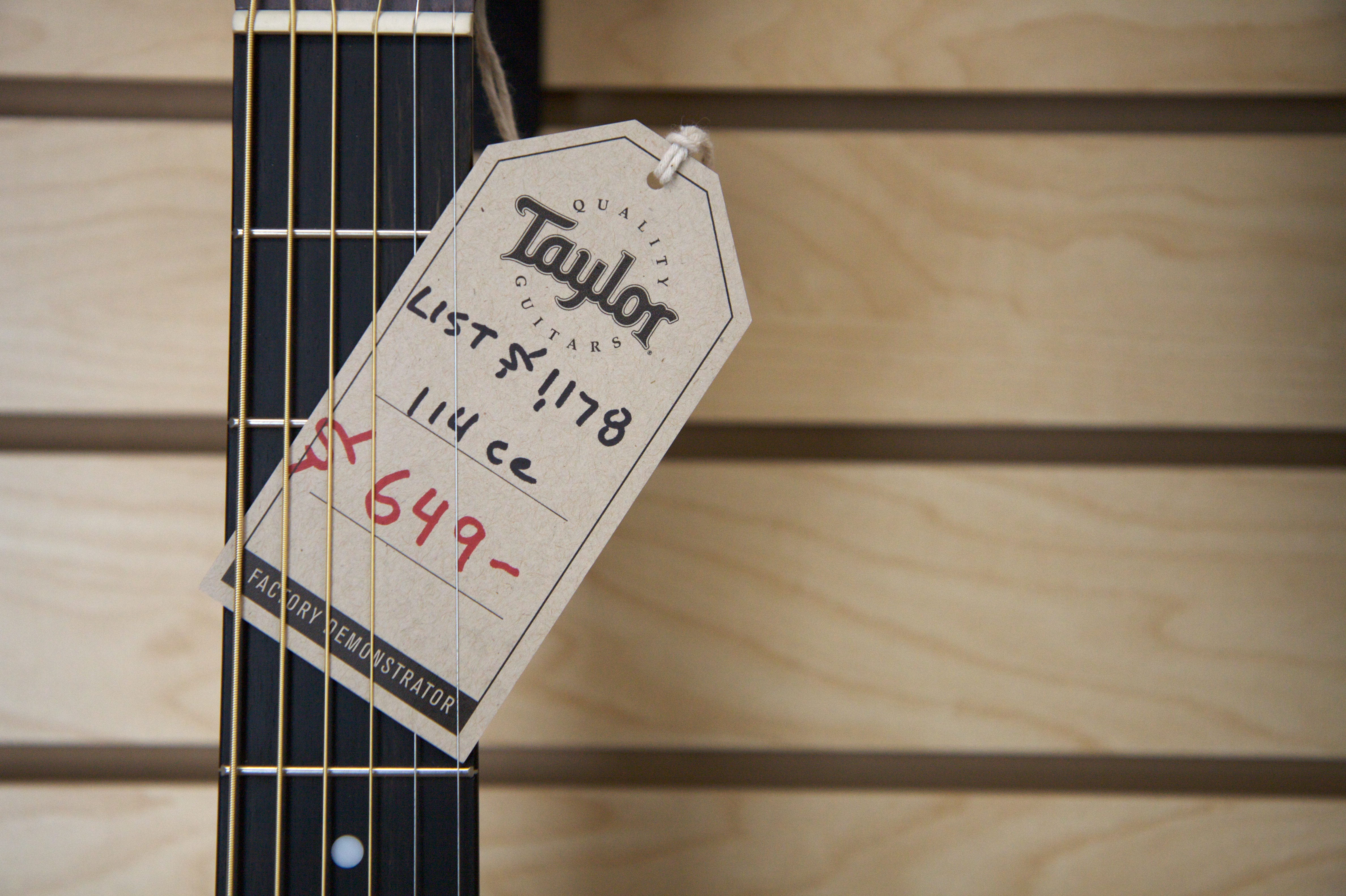 TGFT03 Taylor 114CE fretboard - Taylor Guitar Factory